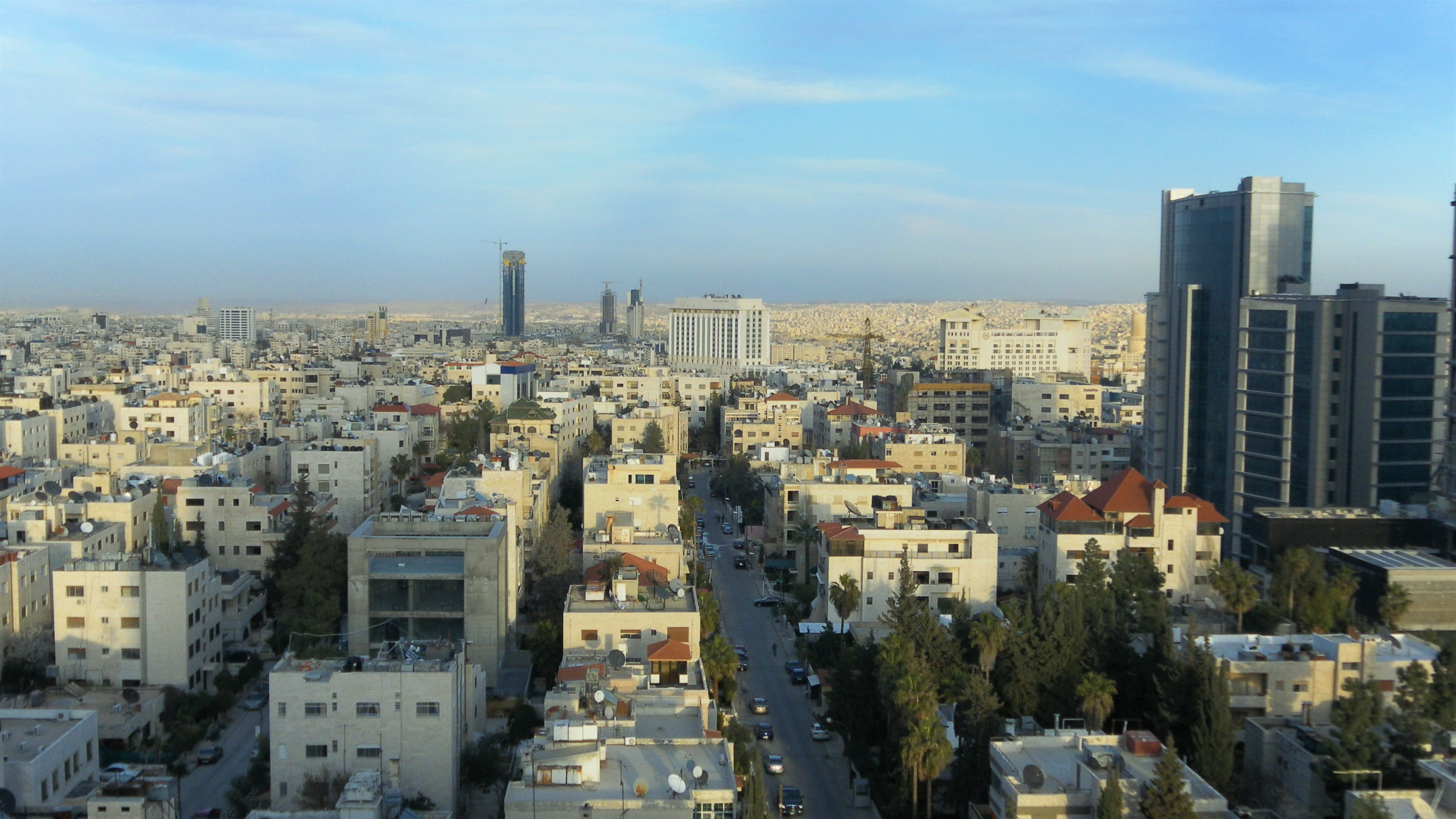 Umm Uthayna, Amman, jordan. This Image was taken from crowne plaza Amman hotel which located in 6th Circle.